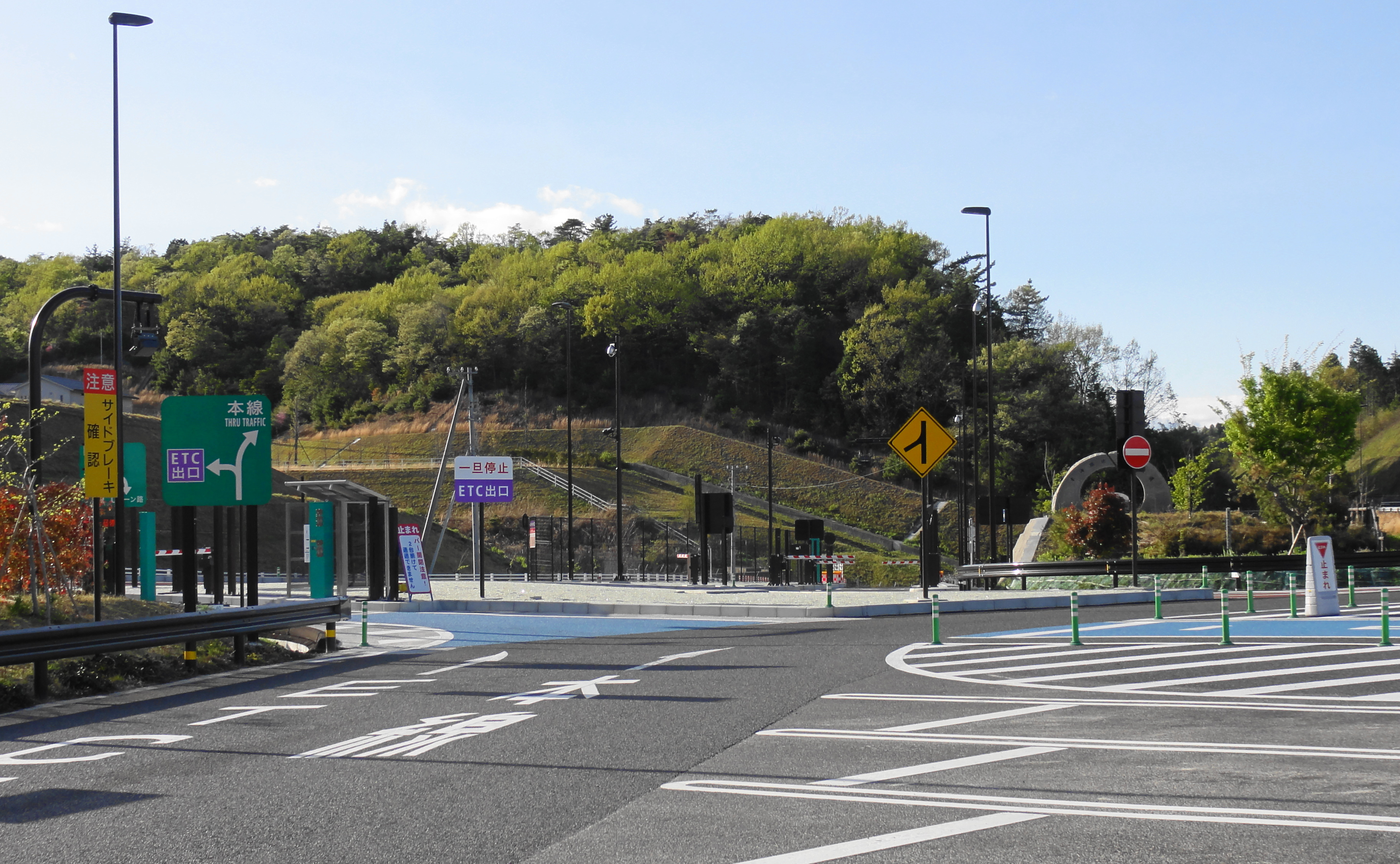 Gotomaki Smart Inter Change,Gifu prefecture, Japan